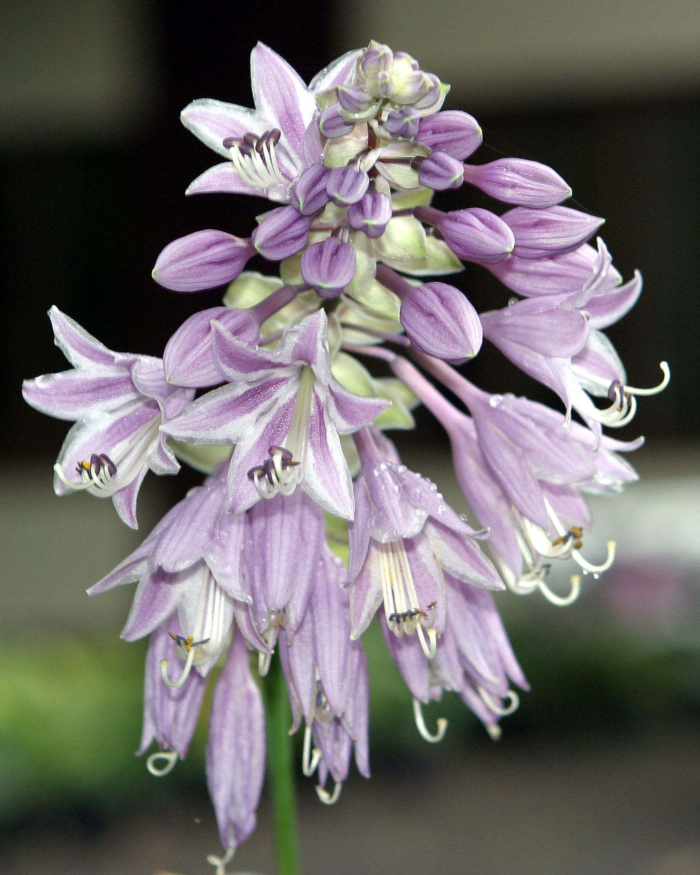 Self made picture of Hosta flowers. Taken late summer 2007.